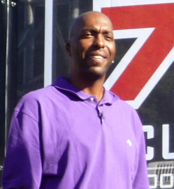 John Salley sports journalist, advertising on behalf of an electric shaver in the pre-game booths outside the 2008 USC-UCLA college football game.